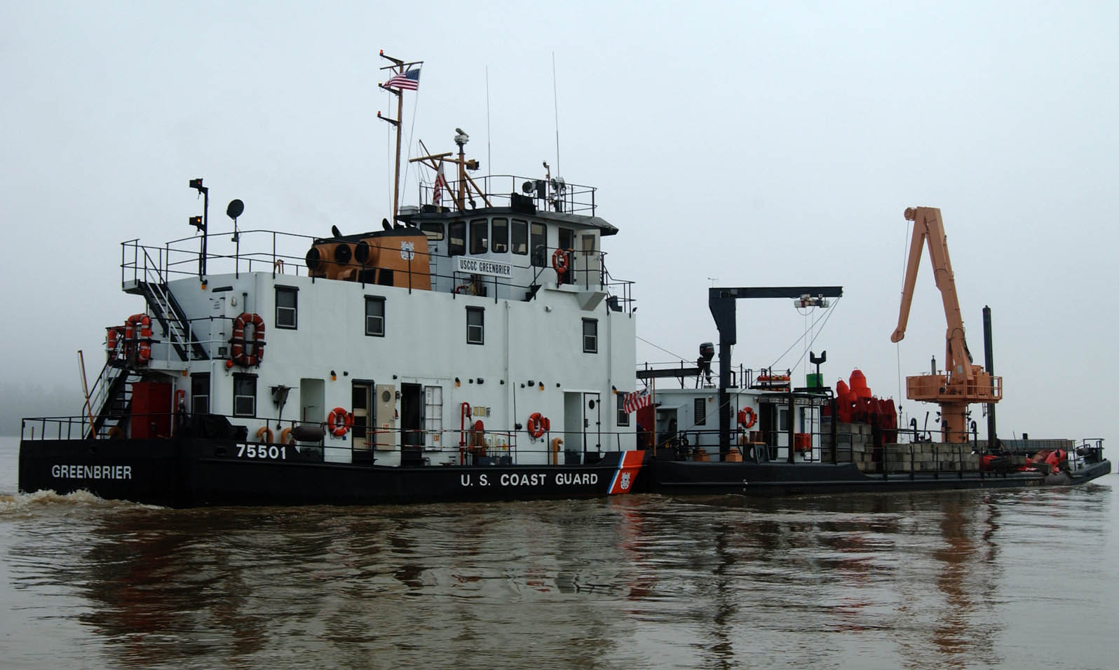 US Coast Guard photo from the US Coast Guard website